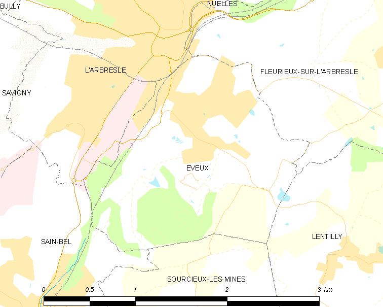 Map of French municipality